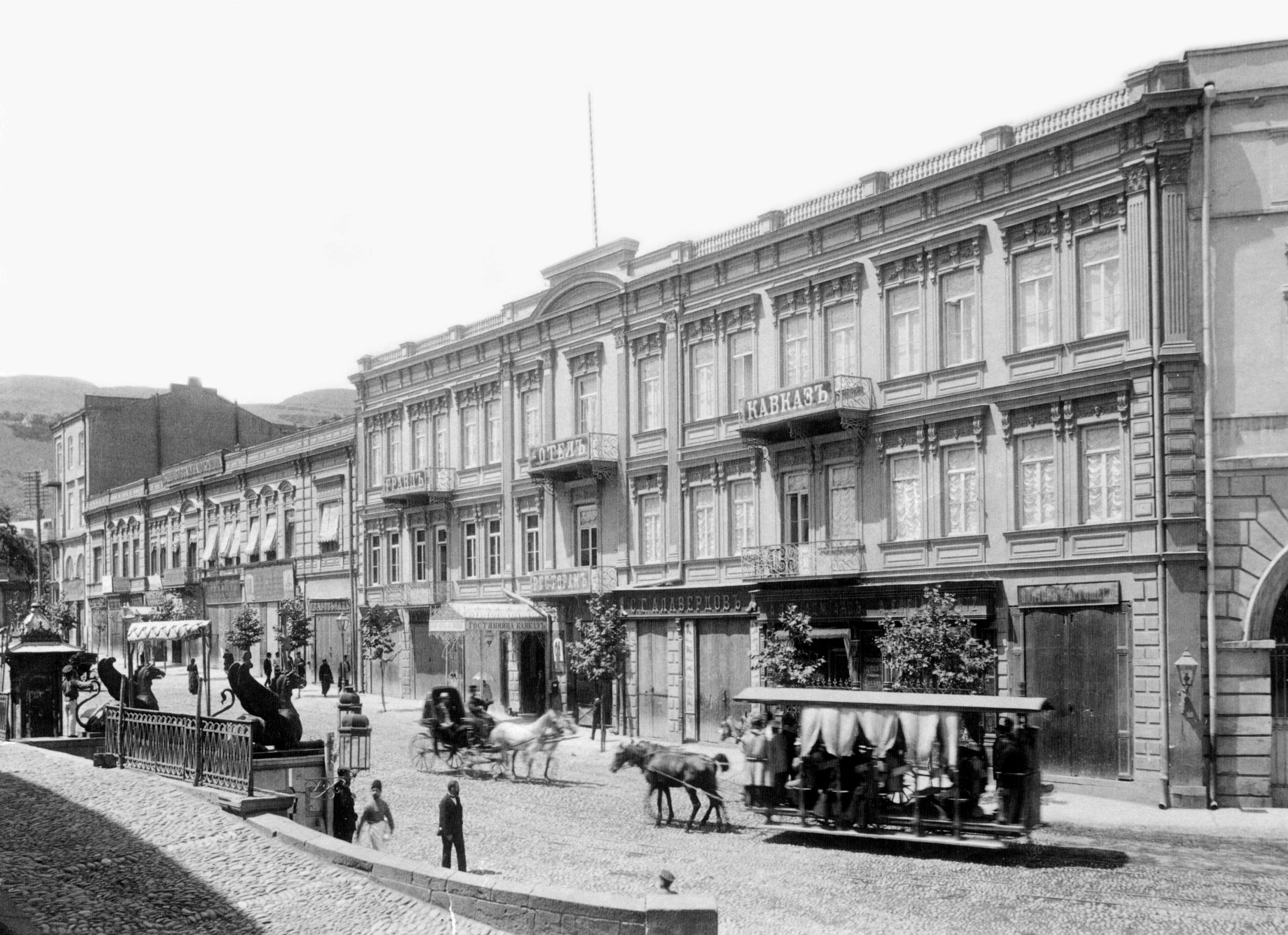 Tbilisi in XIX century, Grand Hotel "Кавказъ", Freedom Square